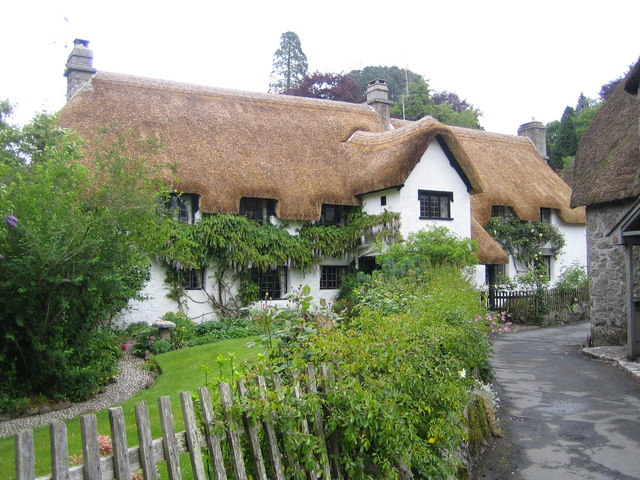 Wrayland Manor Archetypal chocolate box Devon thatched house in the hamlet of Wrayland. A quick search on eBay shows several old postcards of this particular building, calling it variously the Hall House and an "Old Cottage".